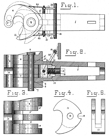 Diagram from US patent 594,059 showing an improved railway coupler design